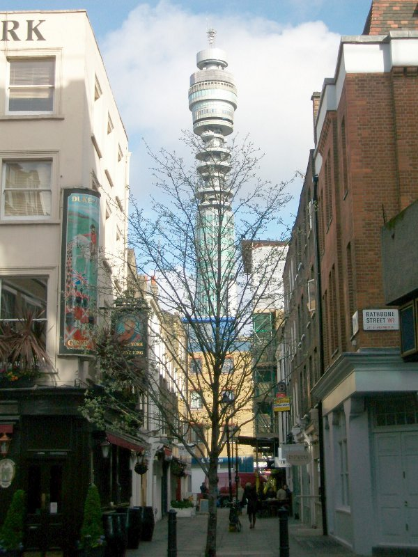 View of BT Tower from Rathbone Street looking through Charlotte Place in Fitzrovia. The street is in City of Westminster and London Borough of Camden.